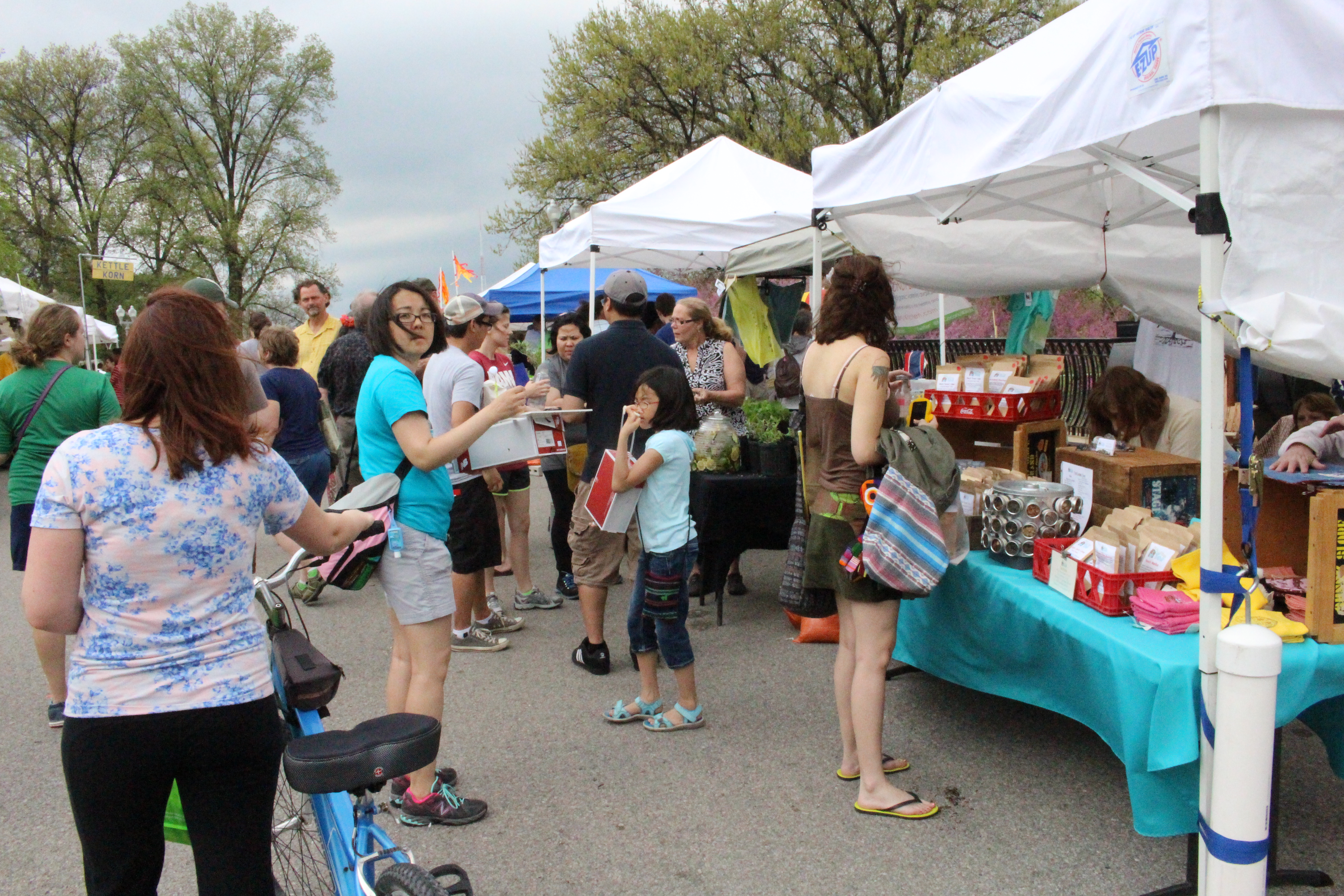 A crowd of people gather outside tents.